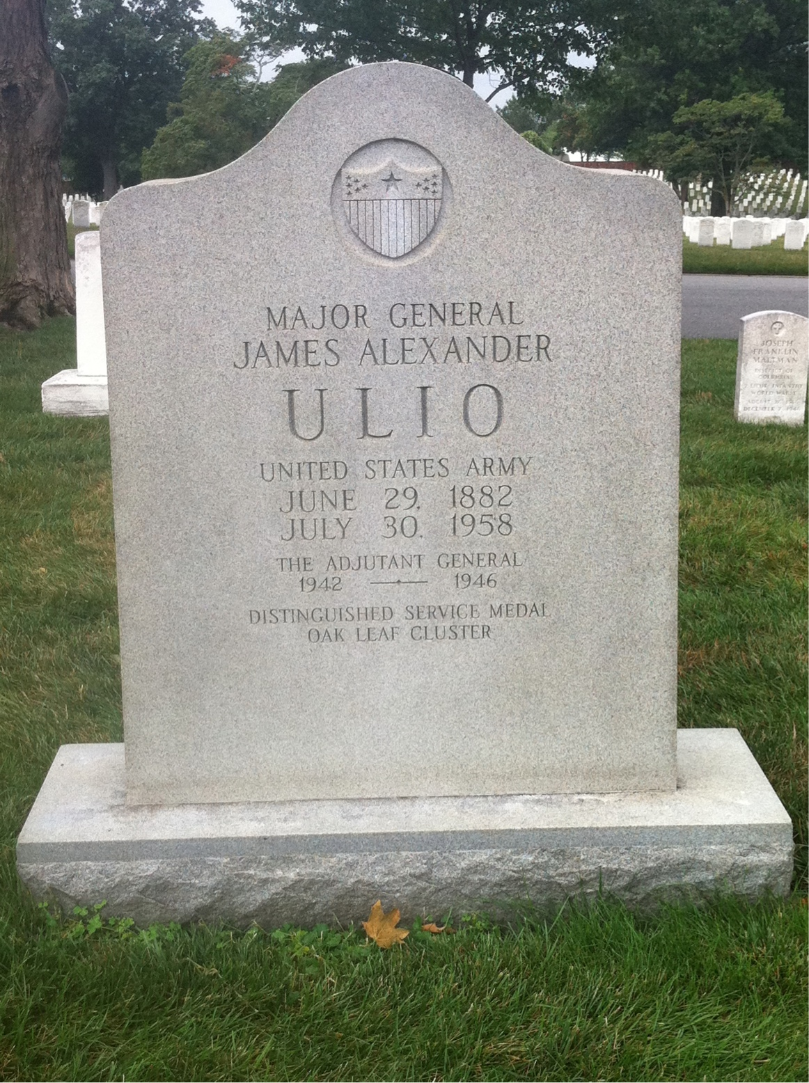 Grave of James Alexander Ulio at Arlington National Cemetery